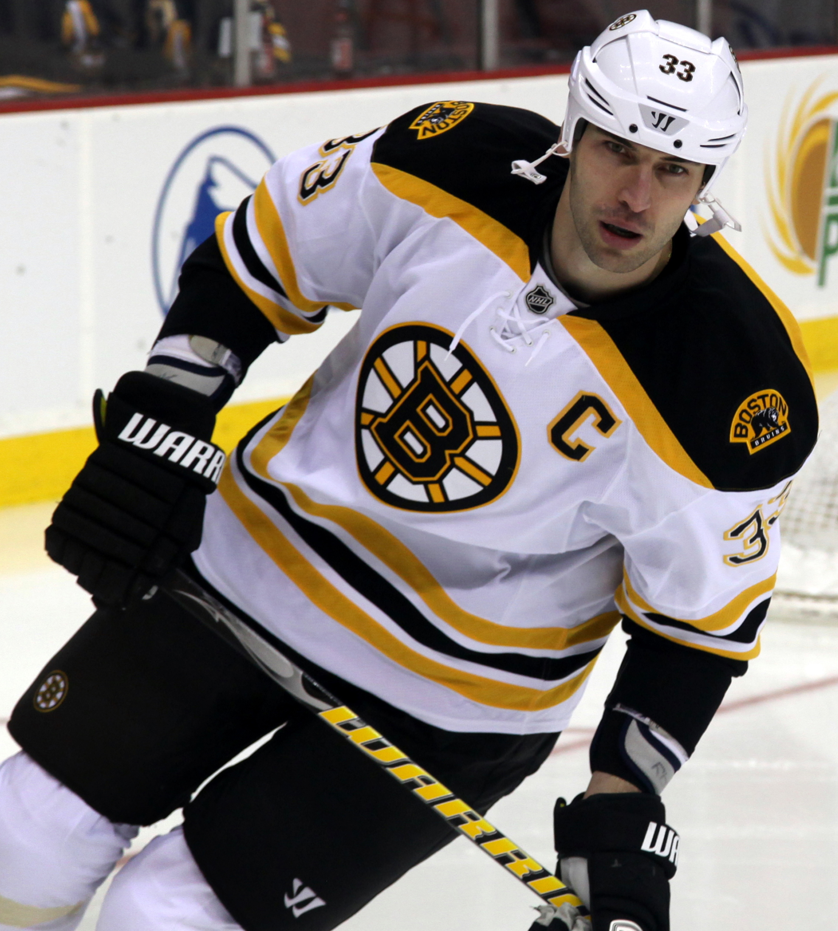 Chara in January 2012.